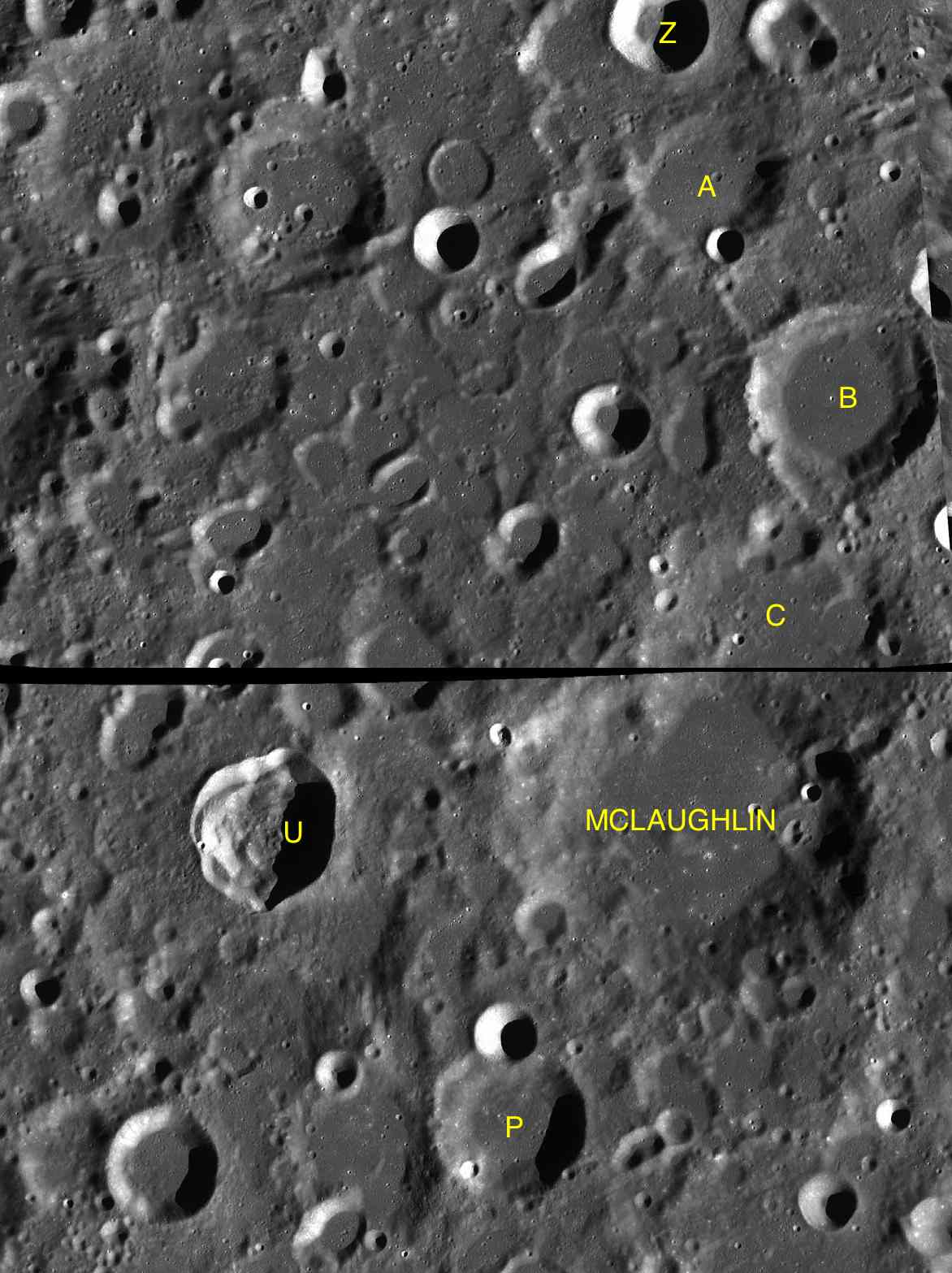 Parts of the charts LAC-21, LAC-36 used for the presentation